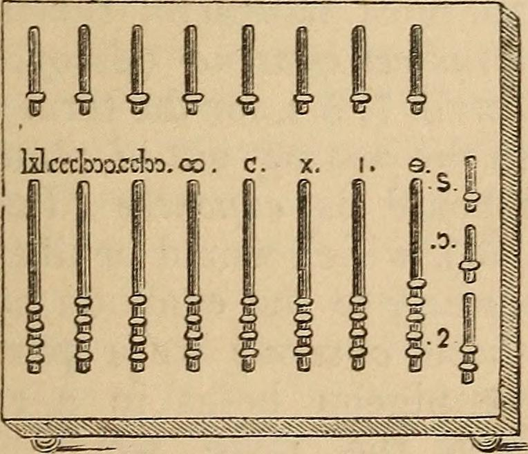 A Roman tablet employed in making arithmetical calculations. Title: The illustrated companion to the Latin dictionary and Greek lexicon; forming a glossary of all the words representing visible objects connected with the arts, manufactures, and every-day life of the Greeks and Romans, with representations of nearly two thousand objects from the antique Year: 1849 (1840s) Authors: Rich, Anthony, 1803 or 1804-1891 Subjects: Classical dictionaries Publisher: London, Longmans Text Appearing Before Image: A tablet employed in making arithmetical calculations, on the plan Text Appearing After Image: of reckoning by decads; similar to that still in use amongst the Chinese (Davis, China, chap. 19.), and commonly called the Pythagorean multiplication table. The illustration re-presents an original first published by Velser. (Histor. Augustan.) It is divided into compartments by parallel channels cut through it, into each of which is inserted a certain number of pins with a button at each end, in order that they might be moved up and down the channels without falling out. The numbers represented by the pins in each channel are marked on it; the longer ones at the bottom are for units ; the shorter, at the top, for decimals. A tray covered with sand was like-wise employed for the same purpose, the lines being drawn out in a similar manner in the sand, and pebbles used, instead of pins, for making the calculations (Pers. Sat. i. 131.); this was still designated by the same name, as was also the tray of the same kind which geometricians used for describing their diagrams. Apul. Apol. p.429. Varior.